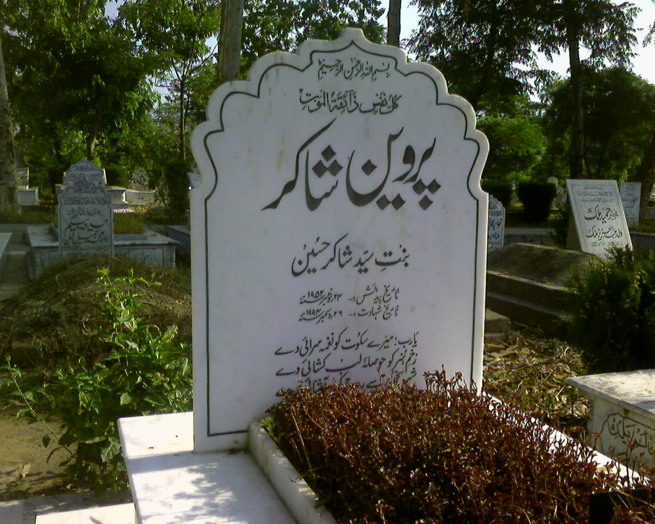 Resting place of Parveen Shakir at Islamabad Graveyard H-8